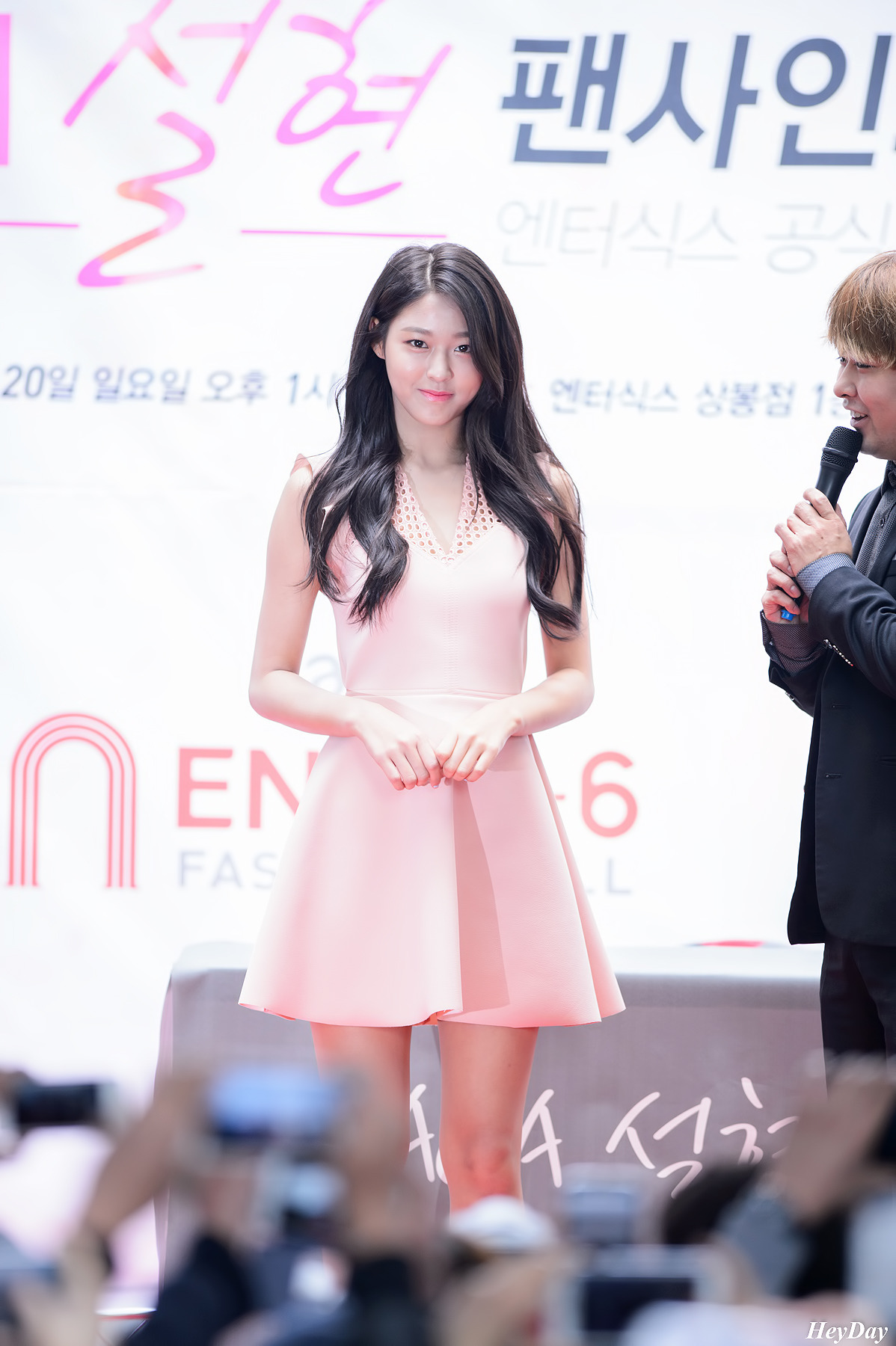 Seolhyun at a fan sign event on 20 March 2016